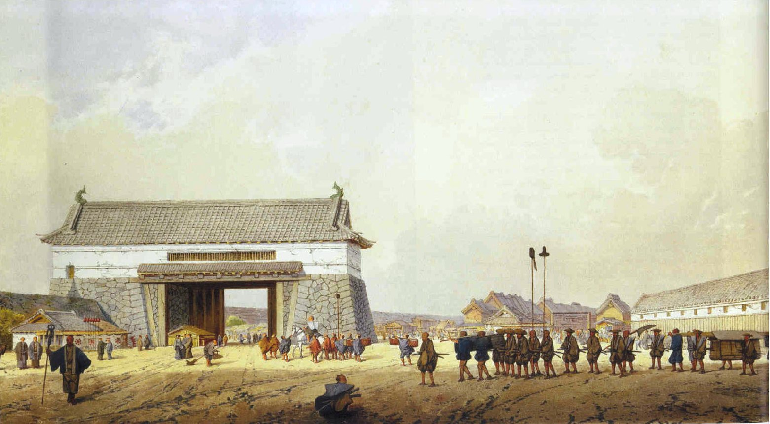 Gate at Edo Castle